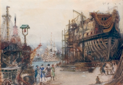 The Building of the Loyal London, by Frank Henry Algernon Mason